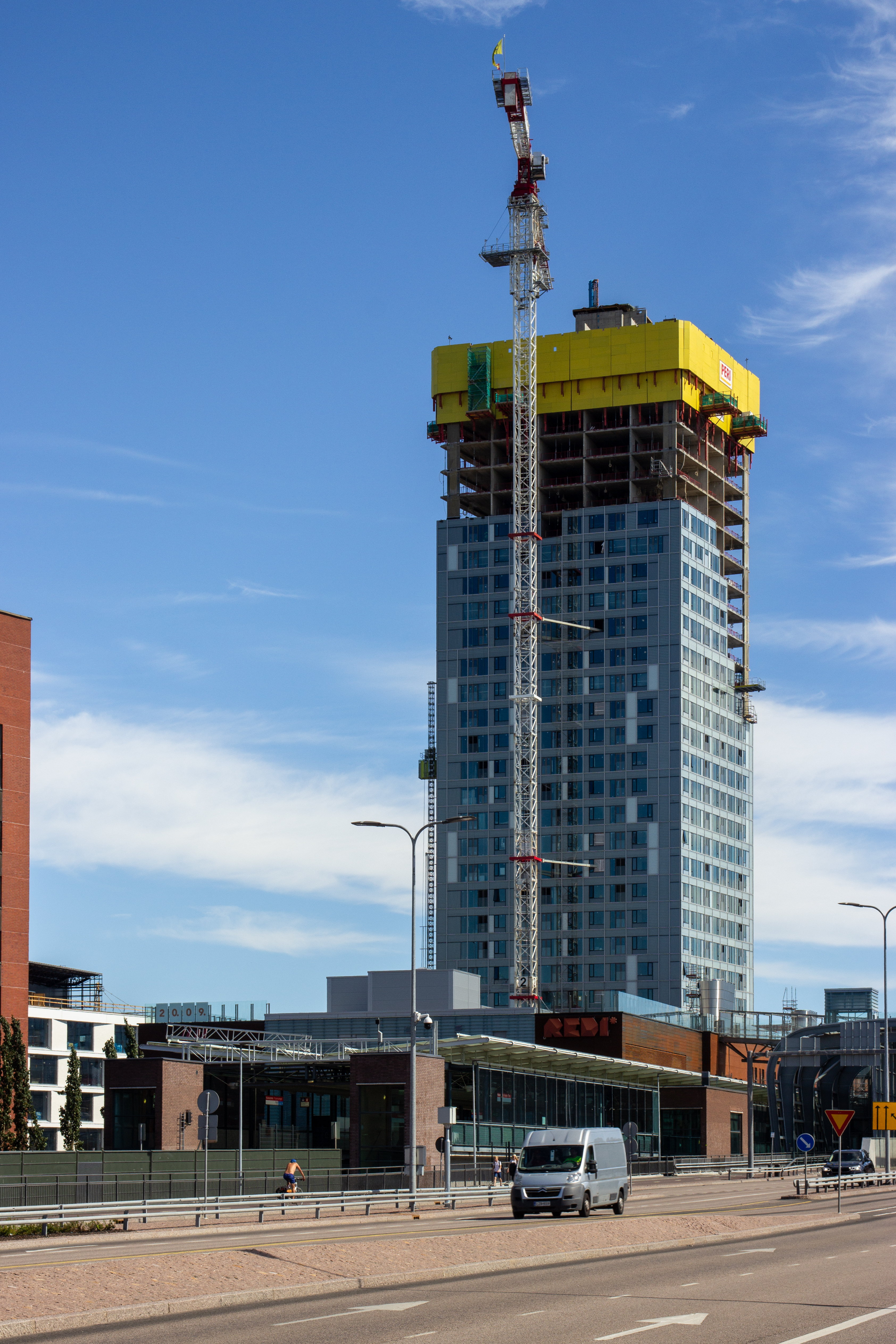 Majakka high rise apartment building under construction in Kalasatama, Helsinki in August 2018. When finished, the building will have 35 floors and will be 134 m tall.